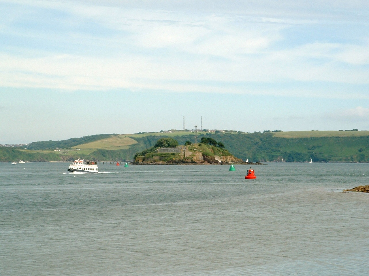 Drake's Island, Plymouth Sound. Taken by Necrothesp, 7 July 2005.